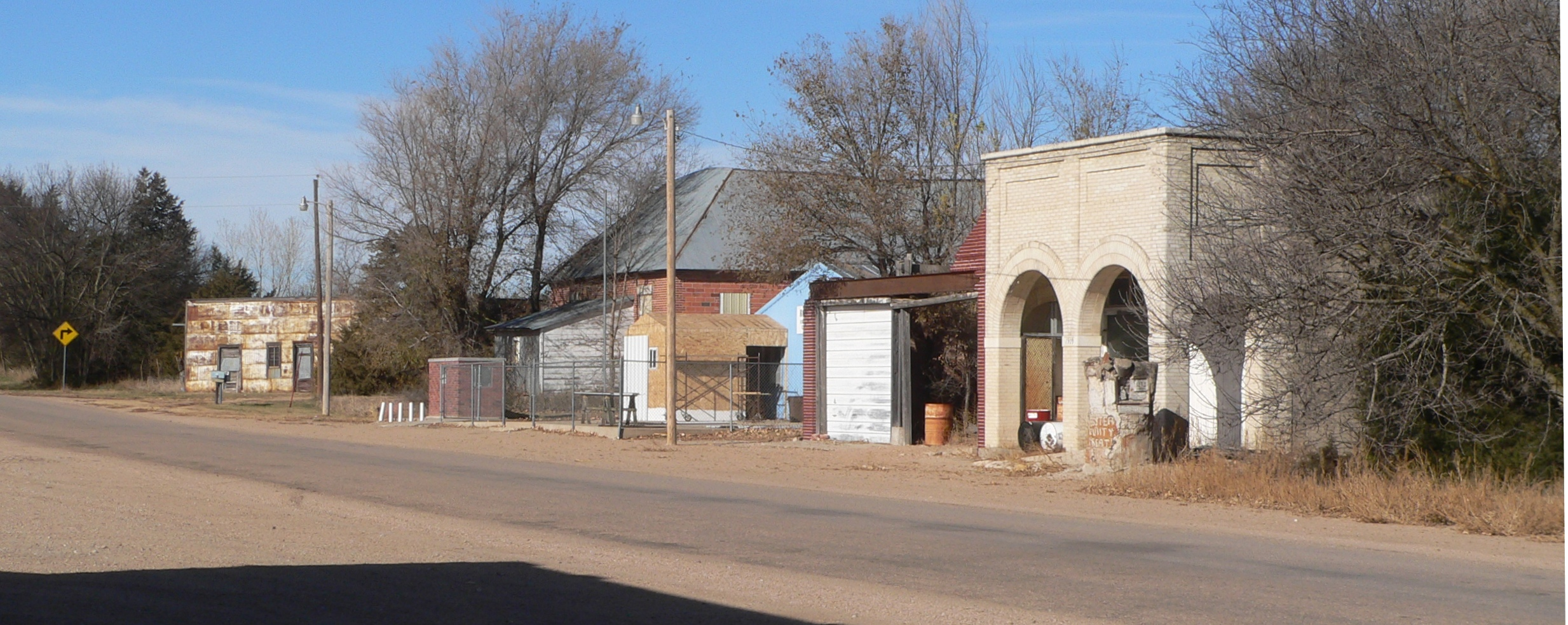 North side of Main Street in Cowles, Nebraska; camera is facing northwest.